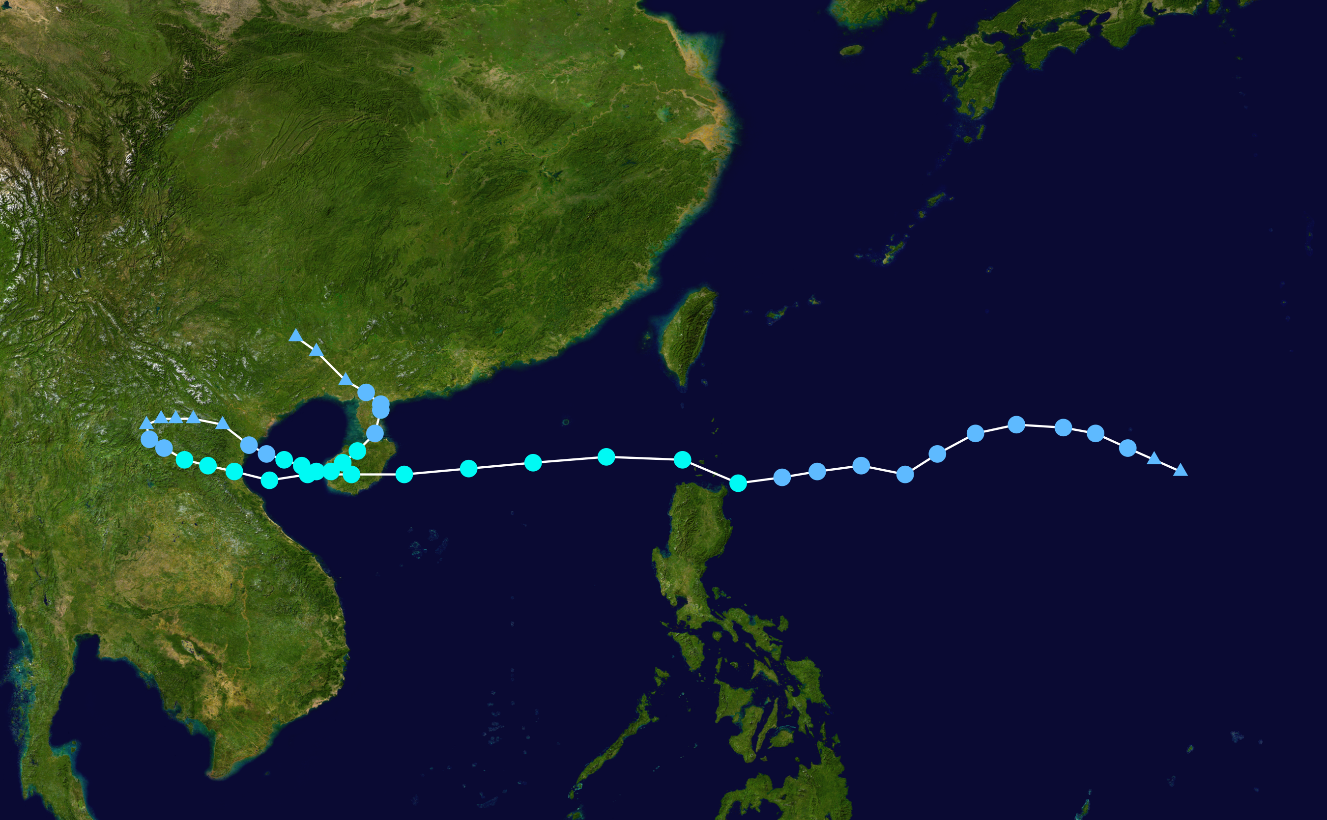 Track map of Tropical Storm Son-Tinh of the 2018 Pacific typhoon season. The points show the location of the storm at 6-hour intervals. The colour represents the storm's maximum sustained wind speeds as classified in the Saffir–Simpson scale (see below), and the shape of the data points represent the nature of the storm, according to the legend below. Saffir–Simpson scale Tropical depression≤38 mph≤62 km/h Category 3111–129 mph178–208 km/h Tropical storm39–73 mph63–118 km/h Category 4130–156 mph209–251 km/h Category 174–95 mph119–153 km/h Category 5≥157 mph≥252 km/h Category 296–110 mph154–177 km/h Unknown Storm type Tropical cyclone Subtropical cyclone Extratropical cyclone / Remnant low / Tropical disturbance / Monsoon depression